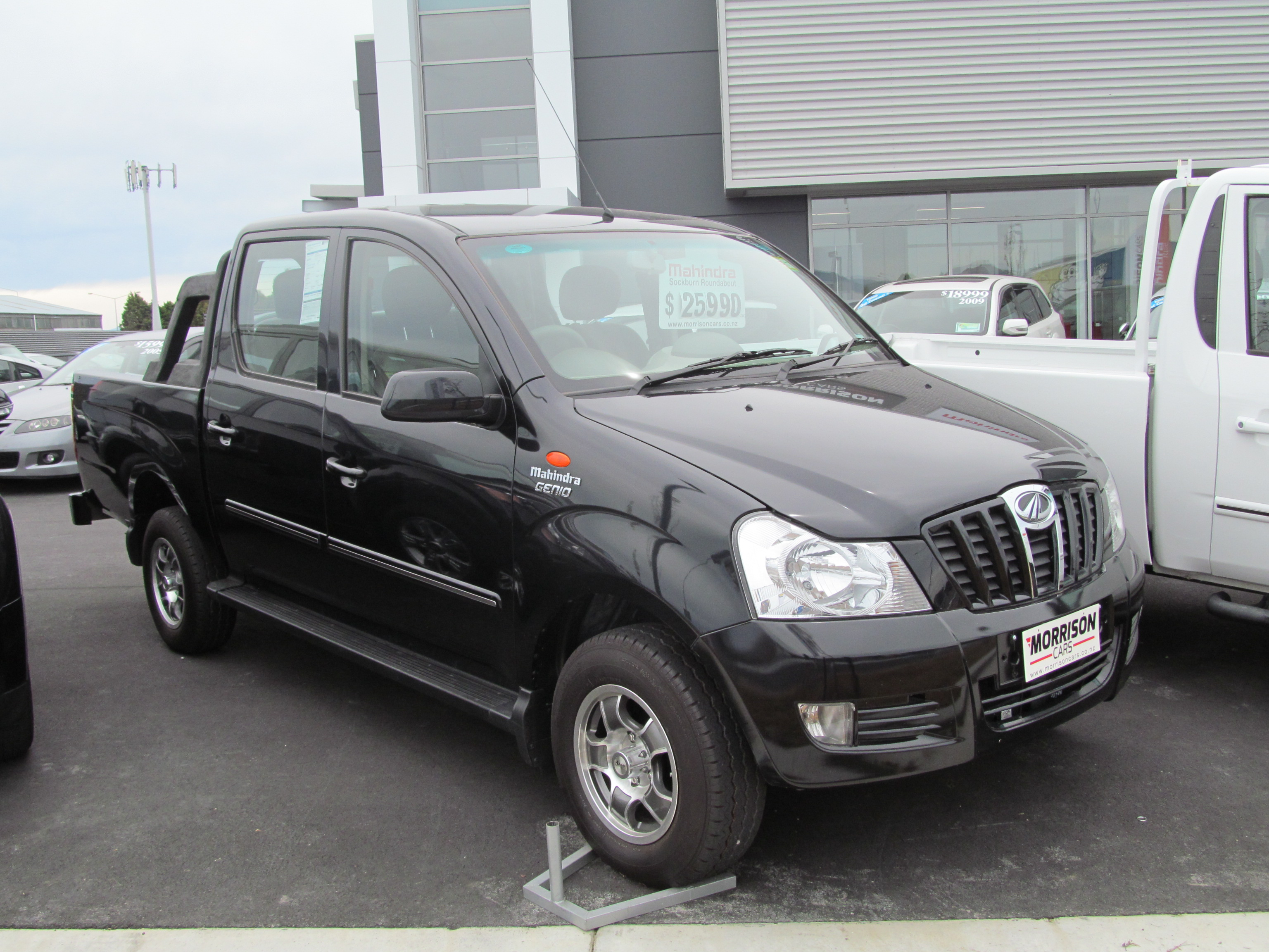 An unusual vehicle - it's not very big but does pack a 2.5-litre CRDi diesel engine under that rather small bonnet. The one on the right is a more basic single cab version, whilst the one above is a higher spec with running boards and some rather snazzy looking alloy wheels.